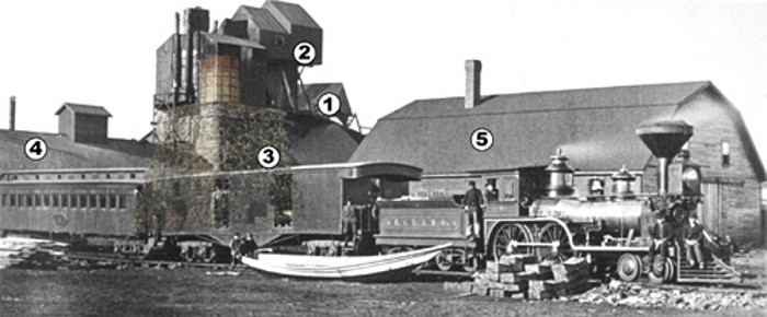 Photo of the ironworks at its height of operation. Annotations are as follows: ore kiln (1), top houses (2), furnace (3), casting shed (4) and storage barn (5).